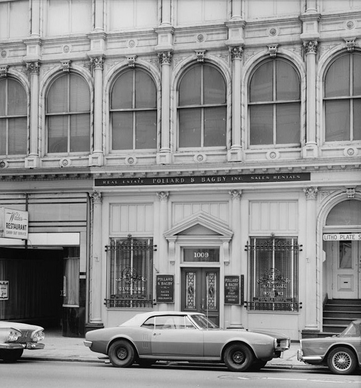 Stearns Iron Front Building, 1007-1013 East Main Street (Richmond, Independent City, Virginia) cropped, HABS VA,44-RICH,96-1 This file comes from the Historic American Buildings Survey (HABS), Historic American Engineering Record (HAER) or Historic American Landscapes Survey (HALS). These are programs of the National Park Service established for the purpose of documenting historic places. Records consist of measured drawings, archival photographs, and written reports. When reusing please credit: Library of Congress, Prints & Photographs Division, VA-847 This tag does not indicate the copyright status of the attached work. A normal copyright tag is still required. See Commons:Licensing for more information. This work is in the public domain in the United States because it is a work prepared by an officer or employee of the United States Government as part of that person’s official duties under the terms of Title 17, Chapter 1, Section 105 of the US Code. See Copyright. Note: This only applies to original works of the Federal Government and not to the work of any individual U.S. state, territory, commonwealth, county, municipality, or any other subdivision. This template also does not apply to postage stamp designs published by the United States Postal Service since 1978. (See § 313.6(C)(1) of Compendium of U.S. Copyright Office Practices). It also does not apply to certain US coins; see The US Mint Terms of Use. This file has been identified as being free of known restrictions under copyright law, including all related and neighboring rights.